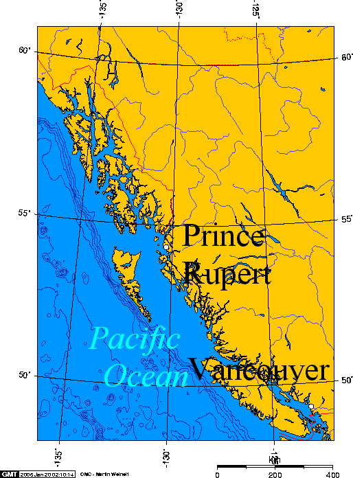 Prince Rupert and Vancouver on the BC_Coast.